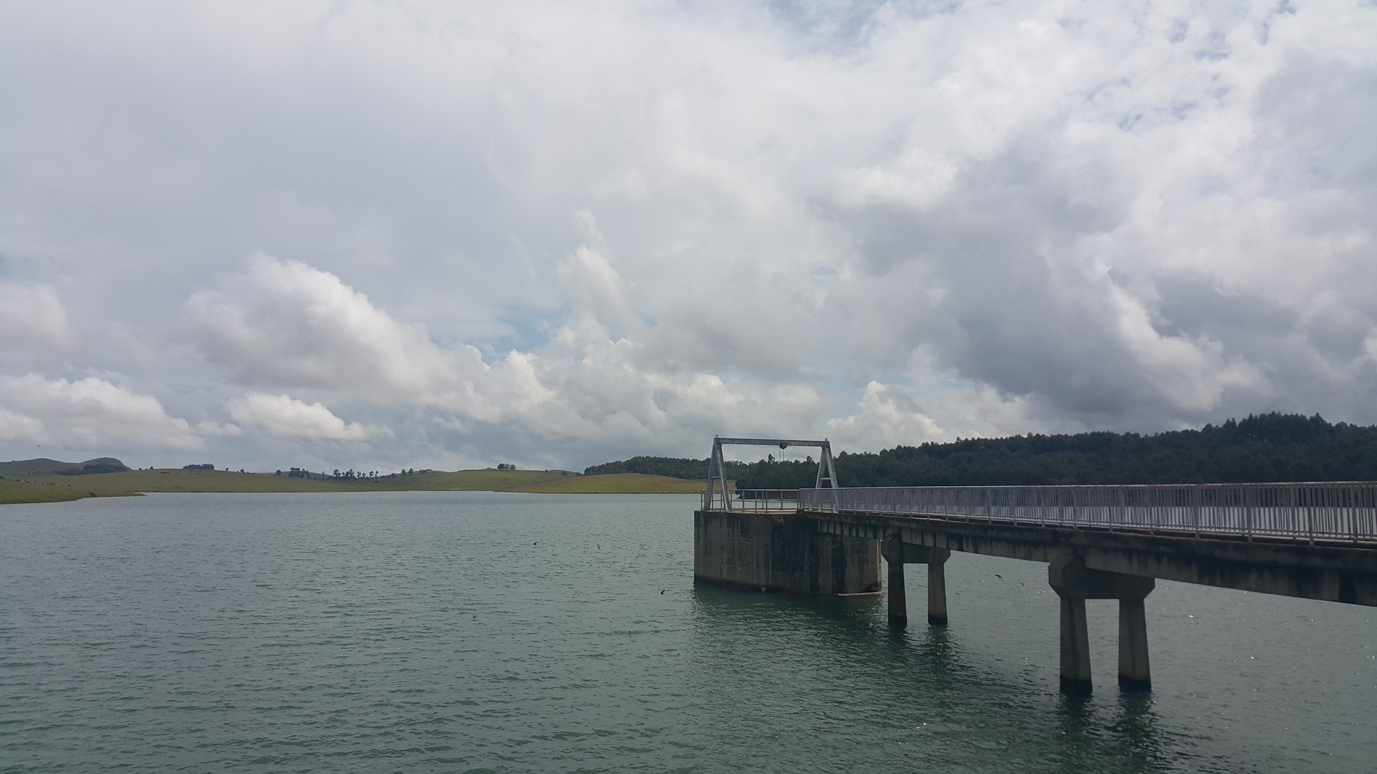 The natural lush green vegetation, Mambilla power plant water courses and highlands of the Mambilla plateau in Taraba state, Nigeria.